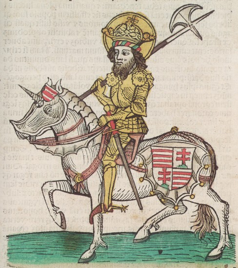 Ladislaus I of Hungary